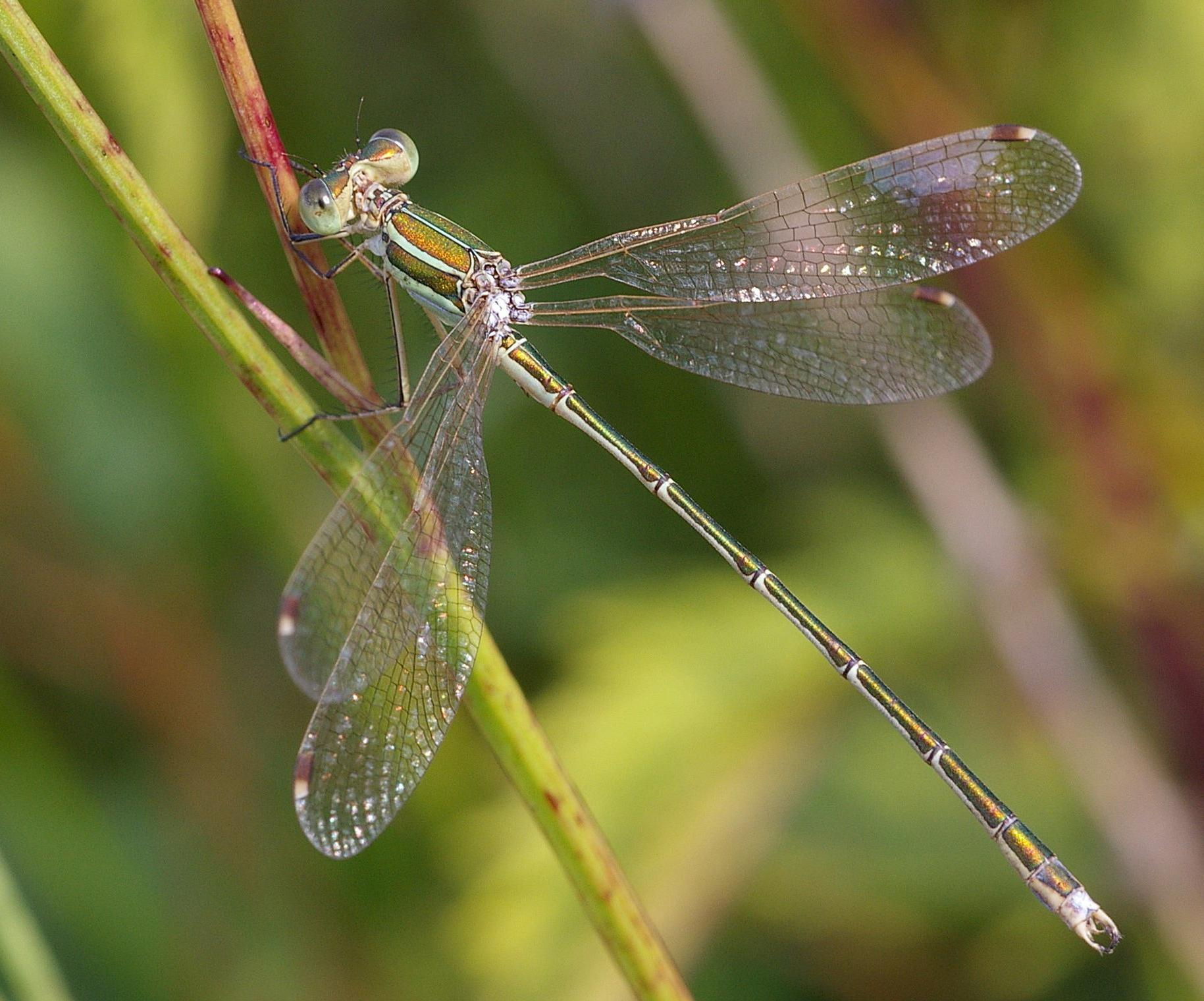 Male specimen of the Southern Emerald Damselfly (Lestes barbarus), sitting on a stalk.